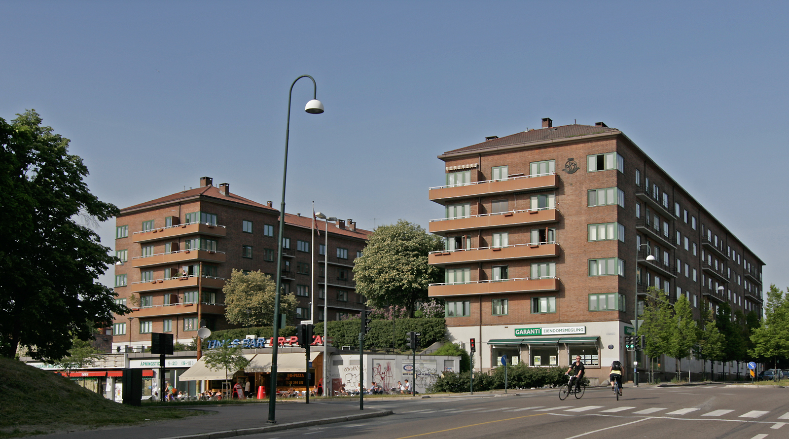 Galgeberg, Oslo. «Gallows' Hill», old place of execution in Oslo. In the 12th C a battle between the Birkebeiner and the Bagler took place here. Apartment blocks built 1936; architect Frithjof Rojahn.